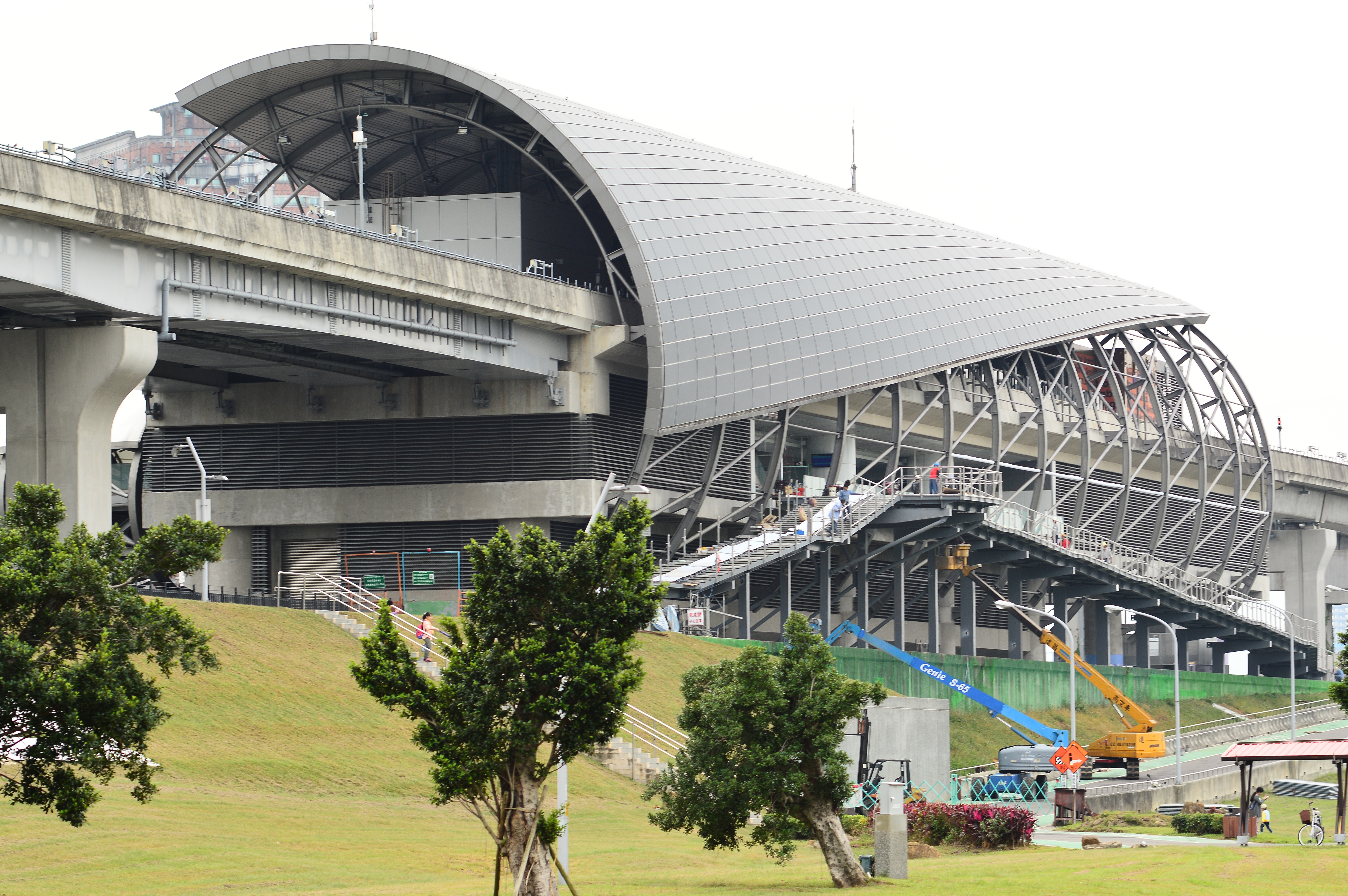 Sanchong Station, Taoyuan International Airport MRT